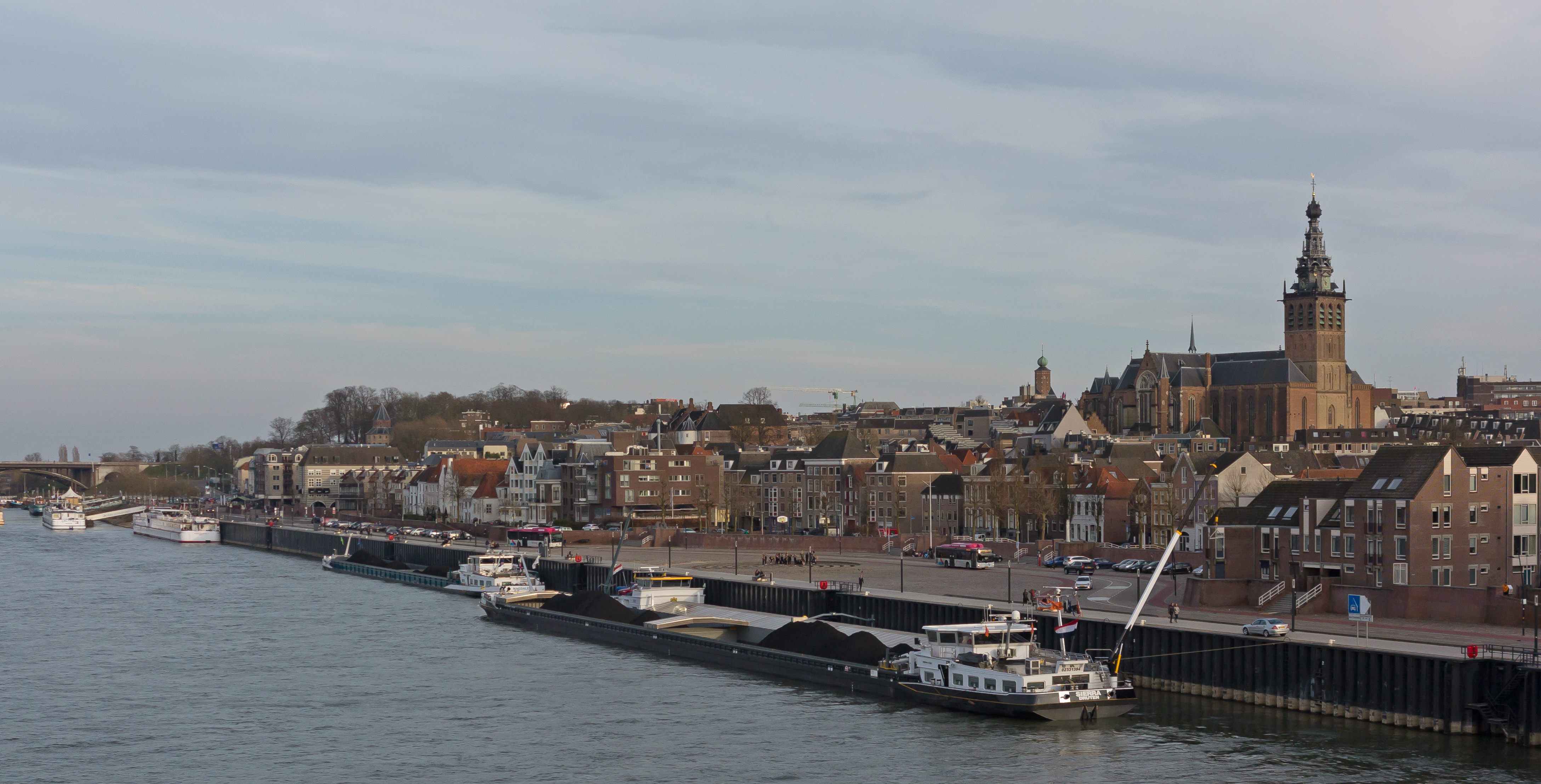 Nijmegen, view of the town from the railway bridge